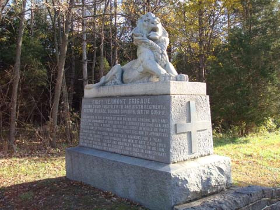 1st Vermont Infantry Brigade Monument, Wright Avenue, Gettysburg Battlefield.